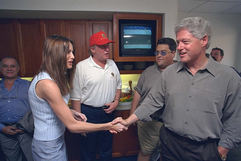 Bill Clinton and Donald Trump at the U.S. Open in 2000, Flushing, New York